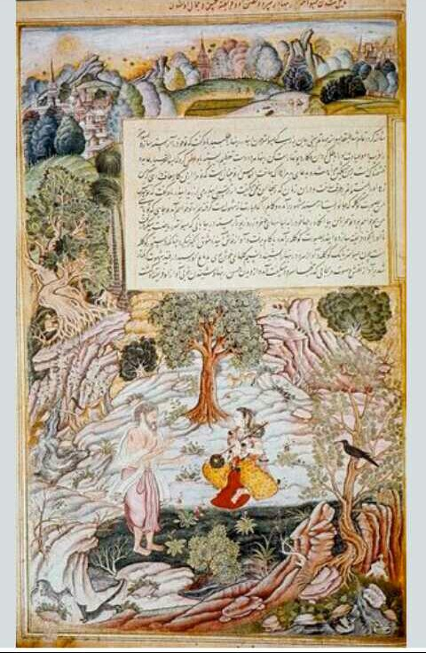 By Artist mukunda